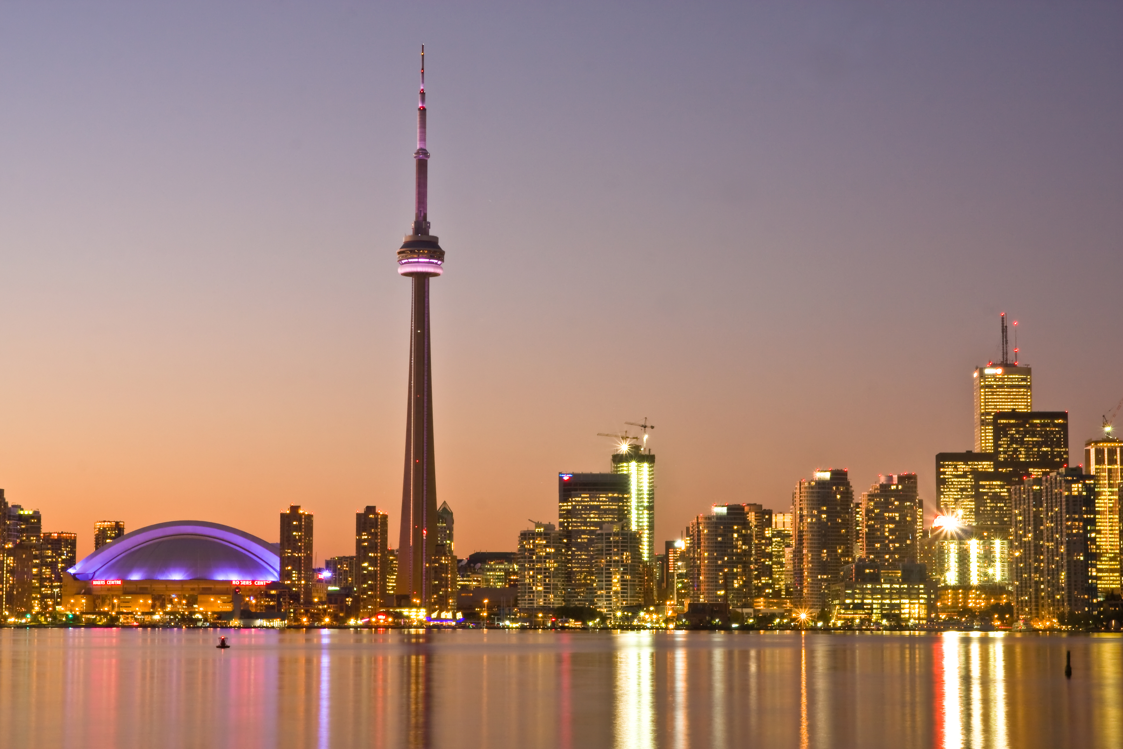 The Toronto skyline from Algonquin Island a couple of minutes after the sun had set. This was also the time at which it started getting chilly on the Islands, I had to actually wear my jacket and zip up and clip every zipper and button on it! lol View On White